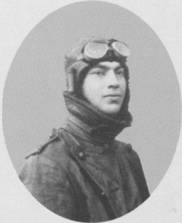 Portuguese aviator Óscar Monteiro Torres, killed in World War One, in 1917. Unknown author.